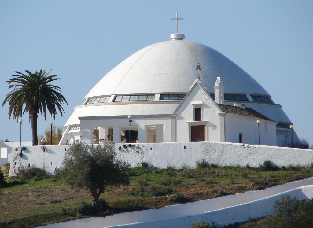 The church/igreja/Ermida de Nossa Senhora da Piedade (Our Lady of Piety) in São Sebastião parish of Loulé in Portugal. The original church is in the foreground. Author: Valter Jacinto